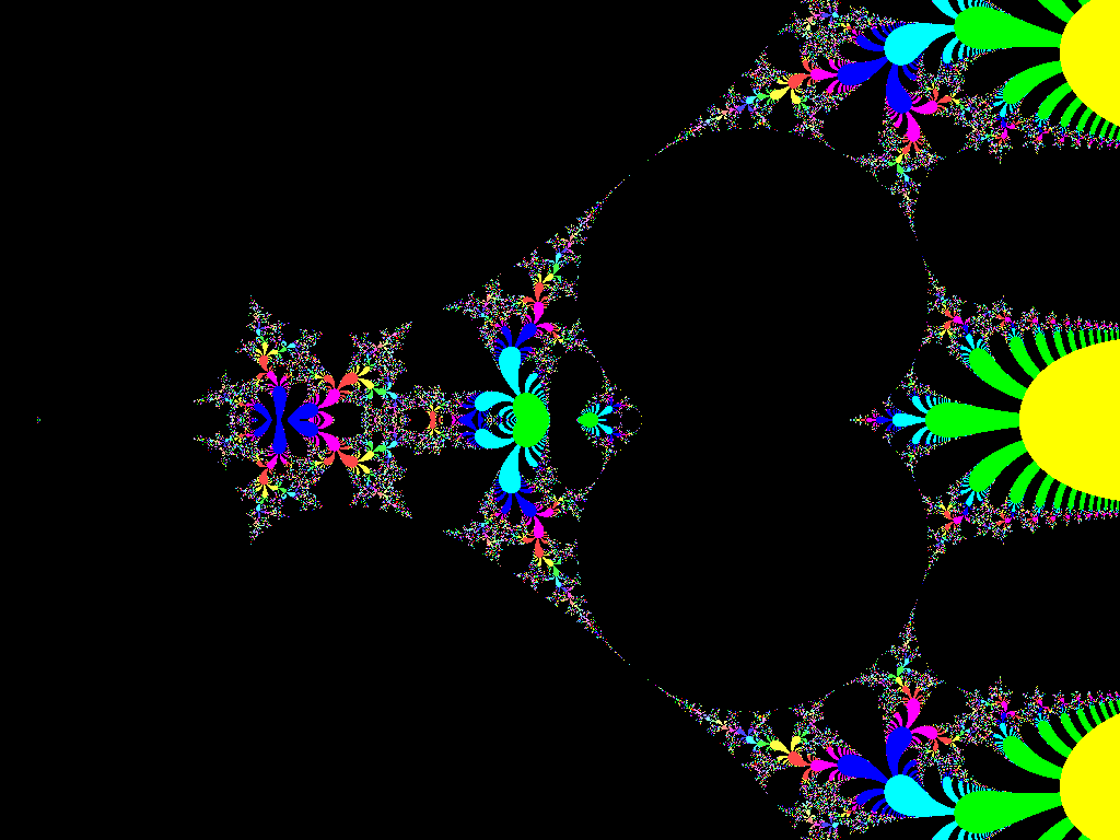 Tetration by escape. This is a fractal of tetration showing the points in the complex plane that escape to infinity under iteration. This fractal is similar to the Mandelbrot fractal except it is an exponential map instead of a quadratic map. The fractal was created using Fractint and shows from -4.5 to 3.5 of the real axis and from –3i to 3i on the imaginary axis.